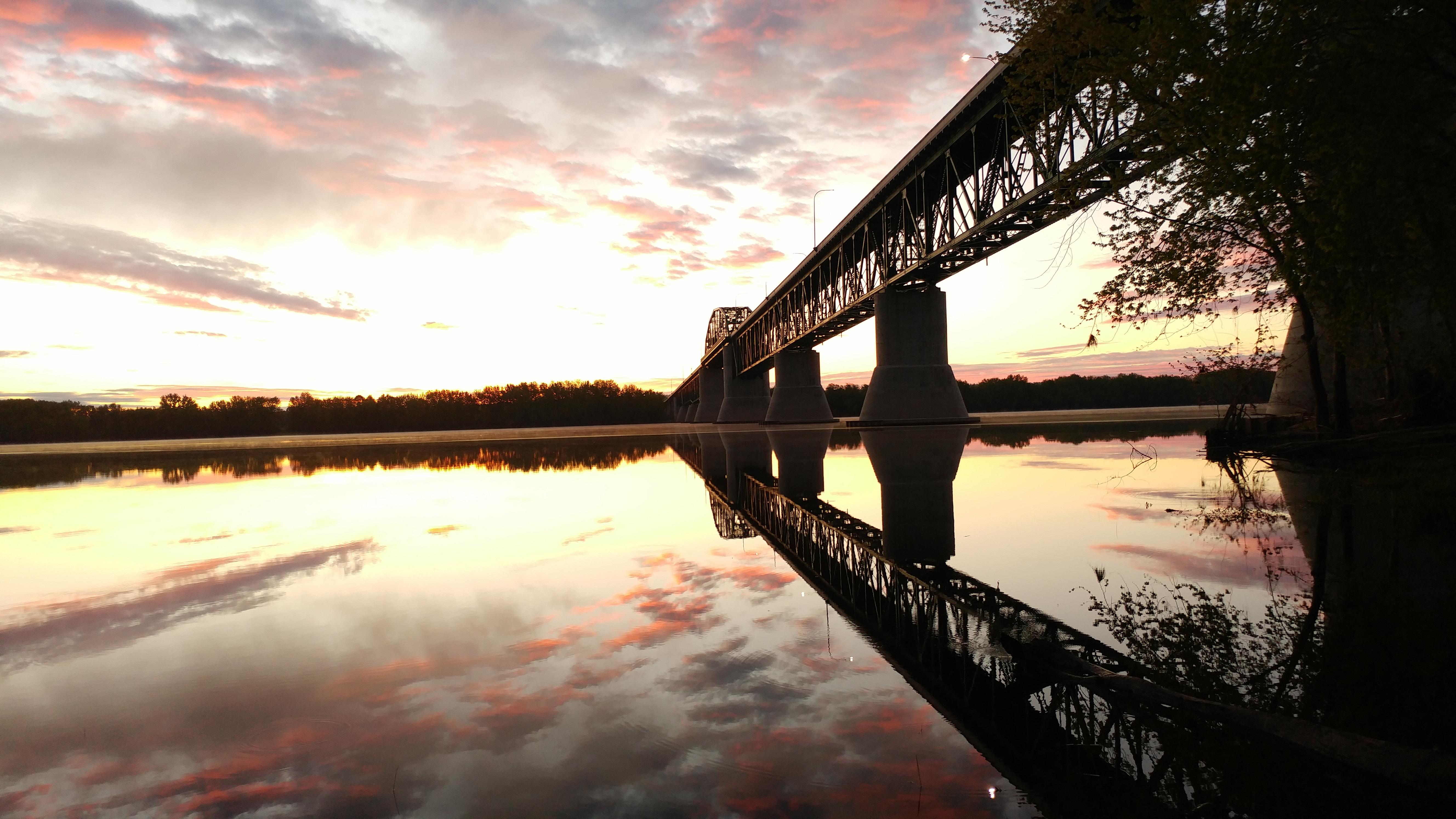 The Princess Margaret Bridge at sunrise